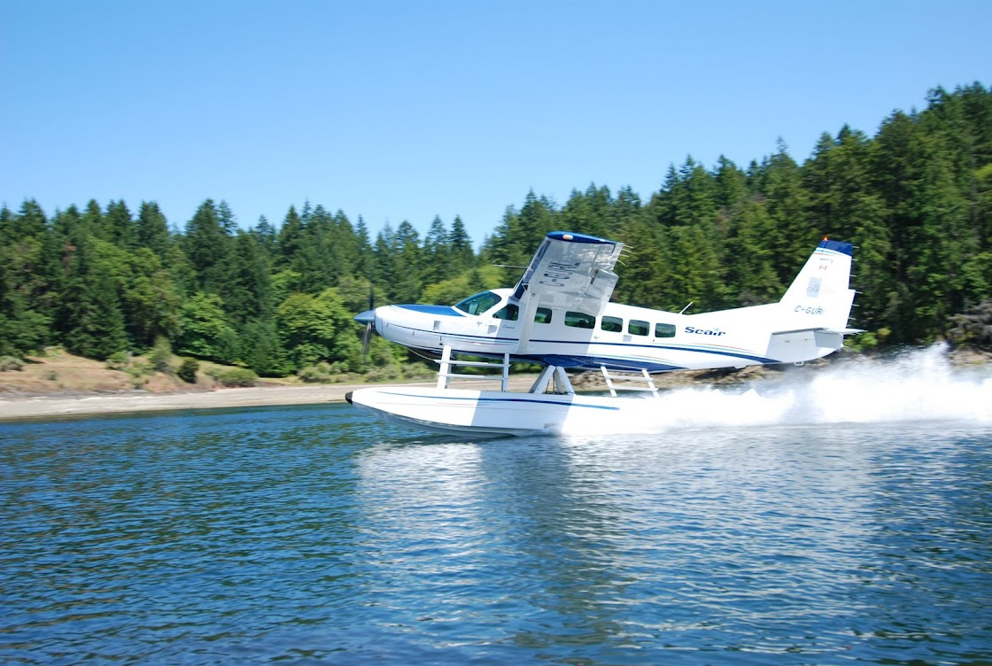 Seair Seaplanes serves British Columbia's south coast with Canada's newest, quietest and most luxurious seaplanes available. Scheduled Flights - We operate up to 12 scheduled flights daily from Downtown Vancouver Harbour to Nanaimo (Departure Bay) and up to 12 scheduled flights daily from Richmond (YVR) to Nanaimo (Departure Bay), as well as up to 8 scheduled flights daily from Richmond (YVR) to 6 of the major Southern Gulf Islands. Charter Flights - We also specialize in seaplane charters in the Pacific Northwest including dropping off or picking up in the U.S.A. Experience world-class salmon and trout fishing, landing in secluded coves with white sand beaches or spending an afternoon on a secret lake north of Vancouver enjoying a gourmet picnic lunch. Our Fleet consists of 4 different types of aircraft - all of which are scrupulously maintained and piloted by experienced coastal pilots - Seair's friendly personnel are always available to offer you their knowledge and expertise in the floatplane industry. Our Terminals are located at Downtown Vancouver Harbour (NW corner of the Vancouver Trade and Convention Centre), Richmond (Vancouver Airport south side at Seair Seaplane Terminal) and in Nanaimo at Departure Bay (Seair Seaplane Terminal beside BC Ferries). Call or book online today. We're looking forward to flying with you soon! Seair Seaplanes Website